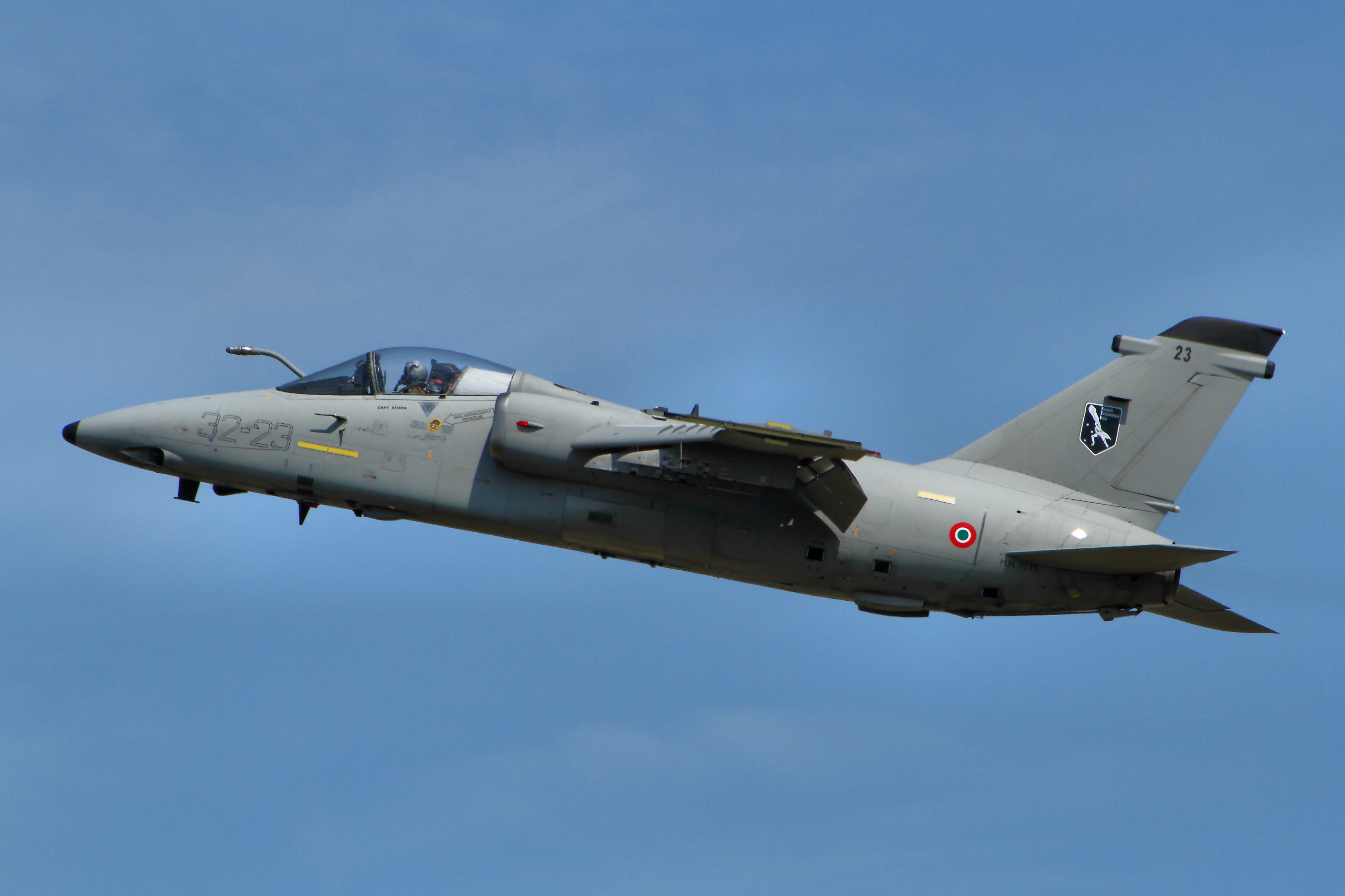 AMX International A-11 - RIAT 2014